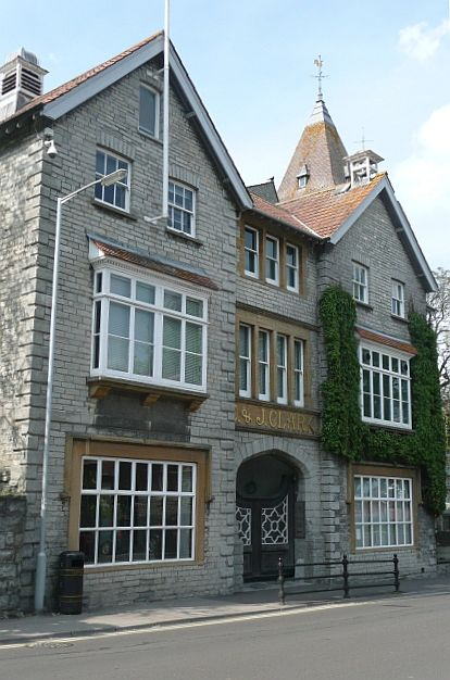 C&J Clark The original Clark's factory entrance, now the shoe museum, but closed at weekends. Why?